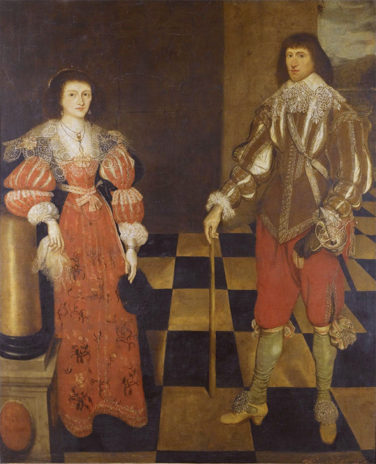 A couple, called Henry Carey, 2nd earl of Monmouth (1596-1661) and his wife oil on canvas 207 by 167.5 cm